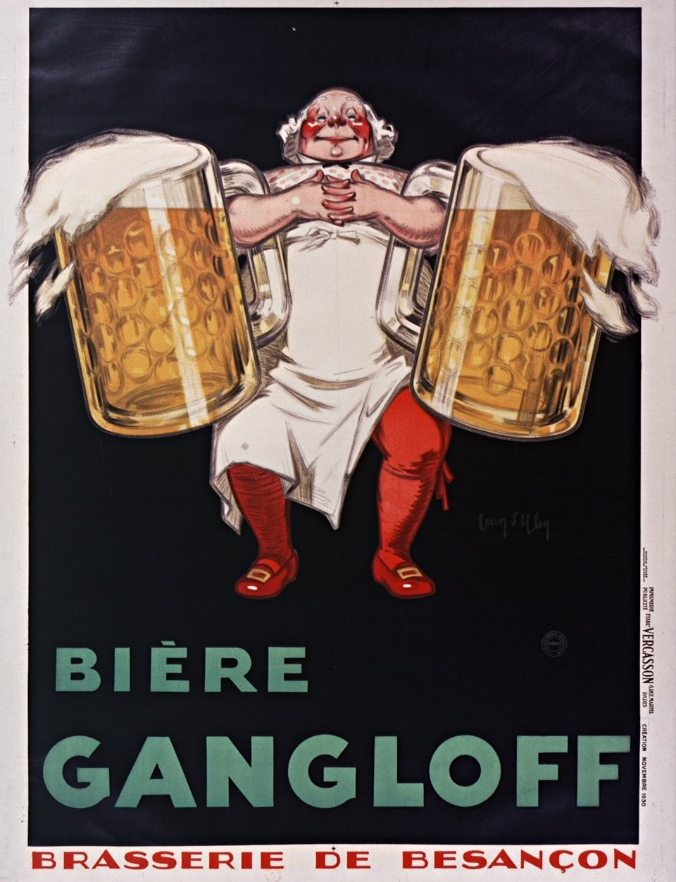 Advertising poster of Gangloff brewery in Besançon, France, 1930.